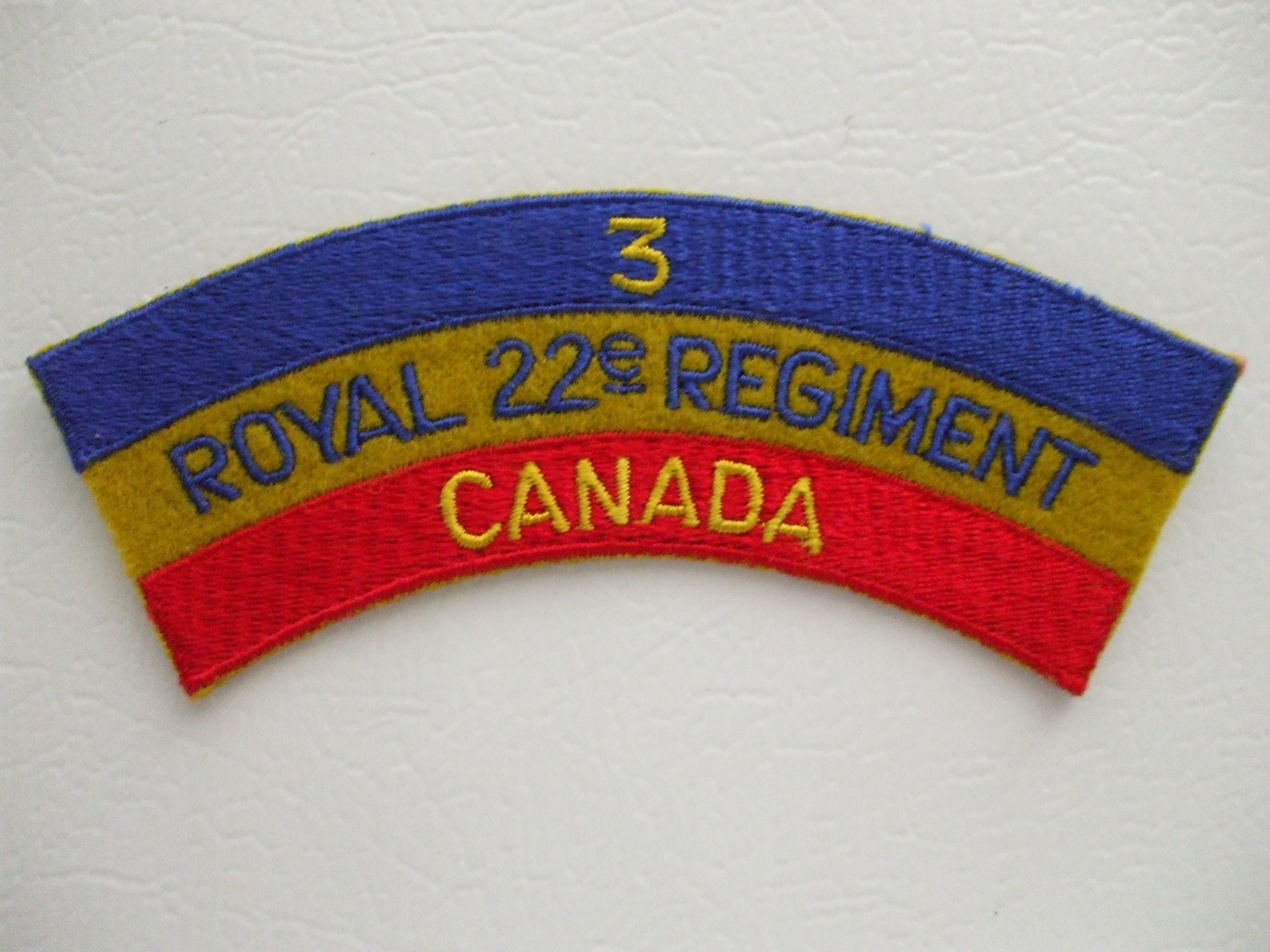 Badge: 3rd Battalion, Royal 22nd Regiment CBF Valcartier